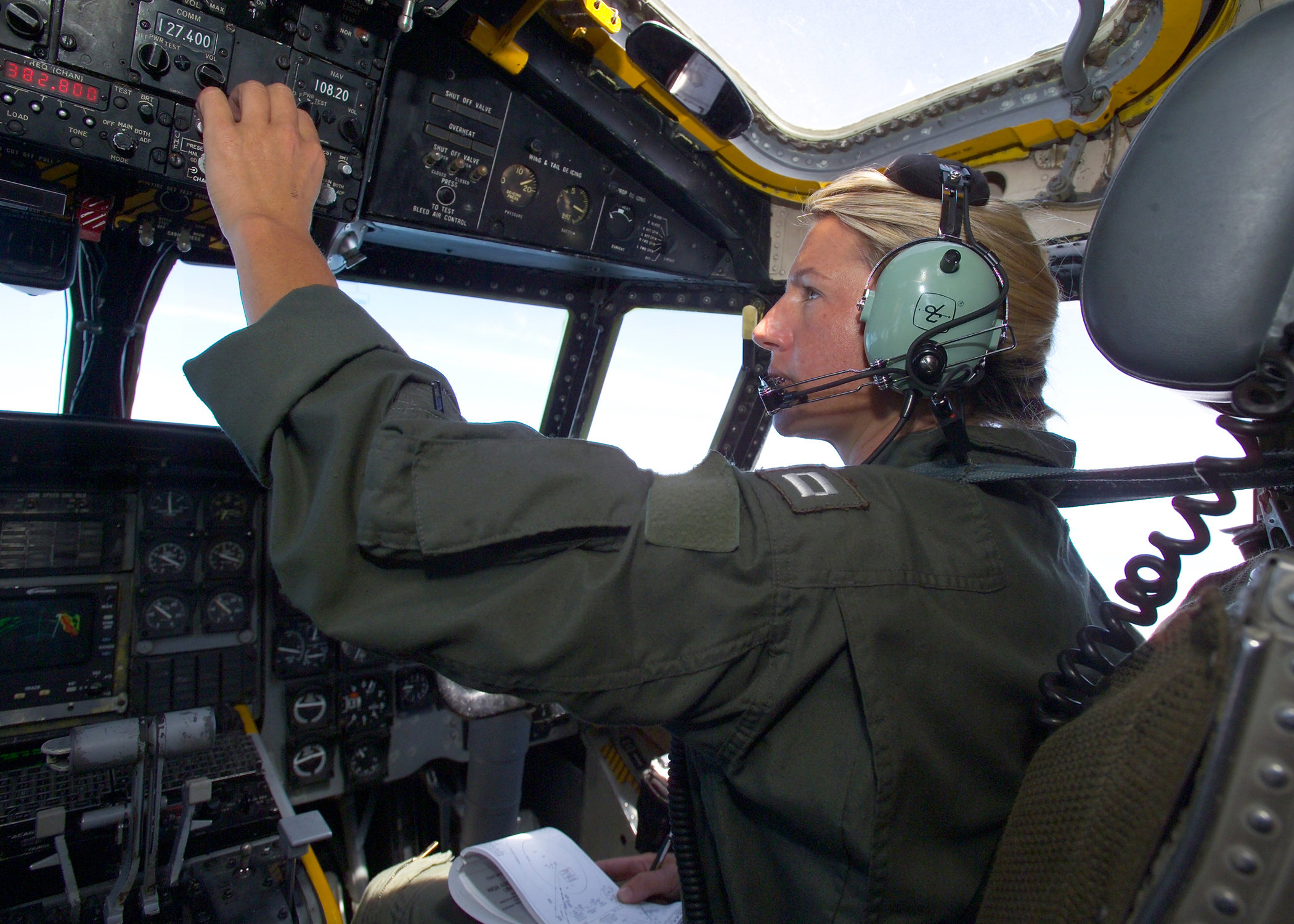 Point Mugu, Calif. (Aug. 6th, 2003) – Lt. Stacy Justeson, a pilot with the "Providers" of Fleet Logistics Squadron Thirty (VRC 30), adjusts the ultra high frequency (UHF) radio in a C-2 Greyhound during a routine logistics flight from Naval Air Station North Island to Naval Base Ventura County. U.S. Navy photo by Photographer's Mate Airman Rebecca J. Moat. (RELEASED)